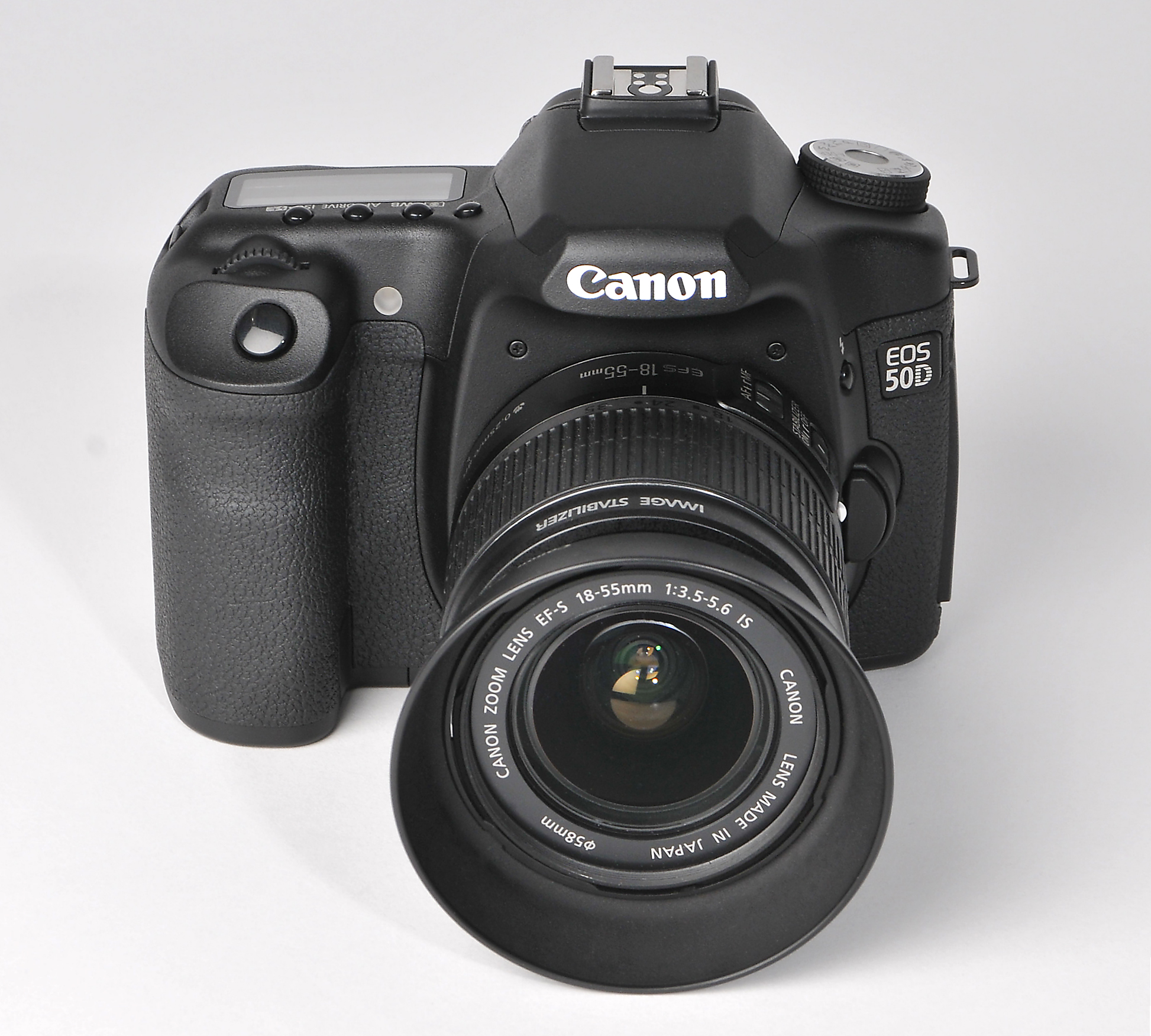 Canon EOS 50D with Canon EF-S 18-55mm 1:3.5-5.6 IS and lens hood